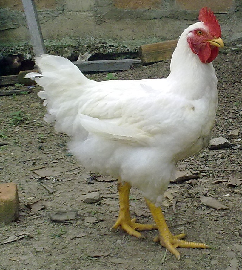 broiler chicken in Ecuador